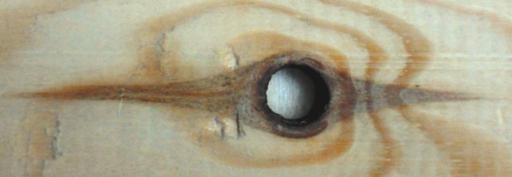 Mottle